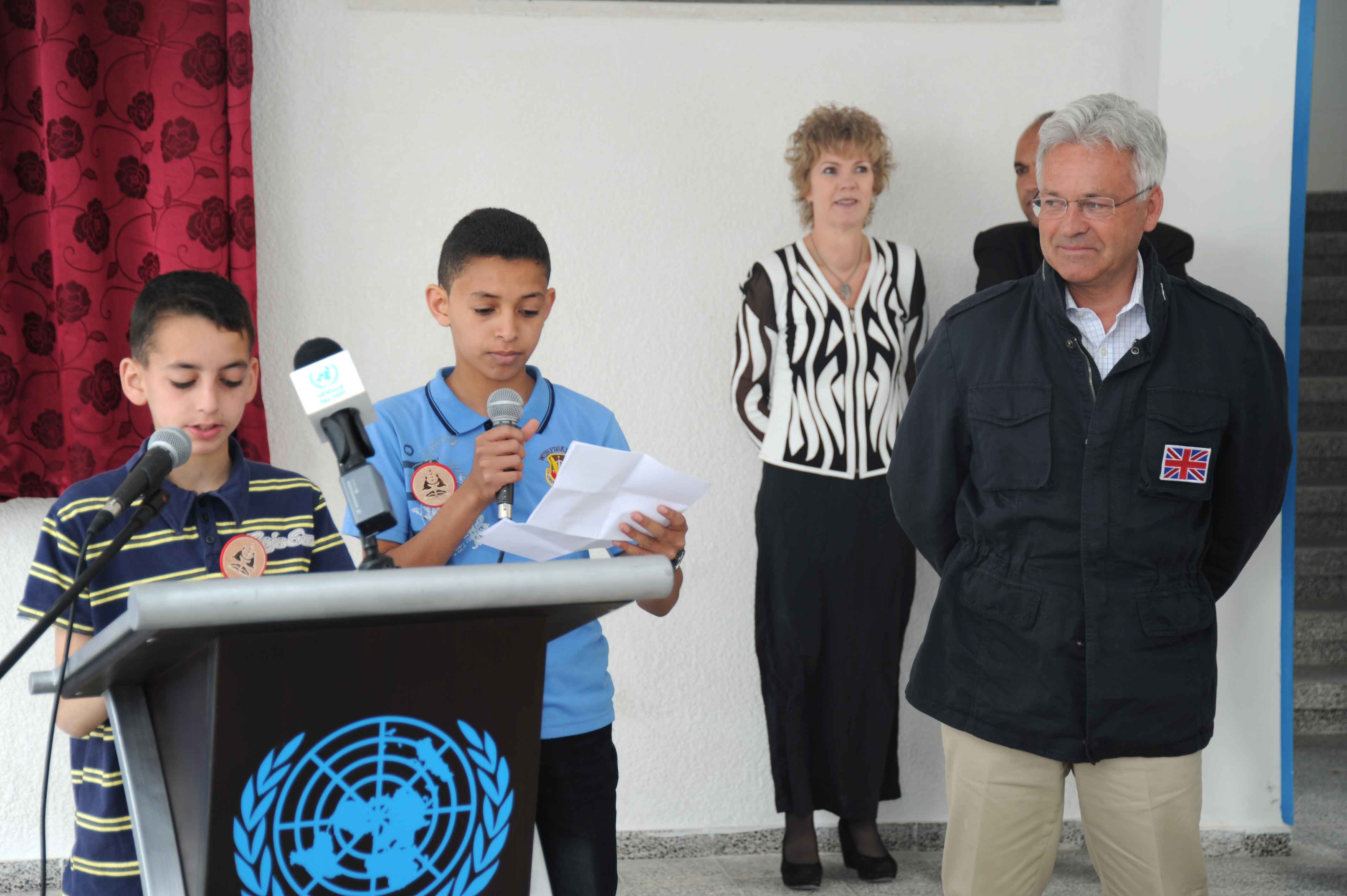 Minister of State for International Development, Alan Duncan MP, looks on as students deliver a presentation at the opening of a UK-funded elementary school in Gaza today. Together with other schools being opened, they will directly enrol 24,000 refugees, of whom 12,500 are girls. The minister met teachers, pupils and parents who will benefit from the support. Picture © UNRWA